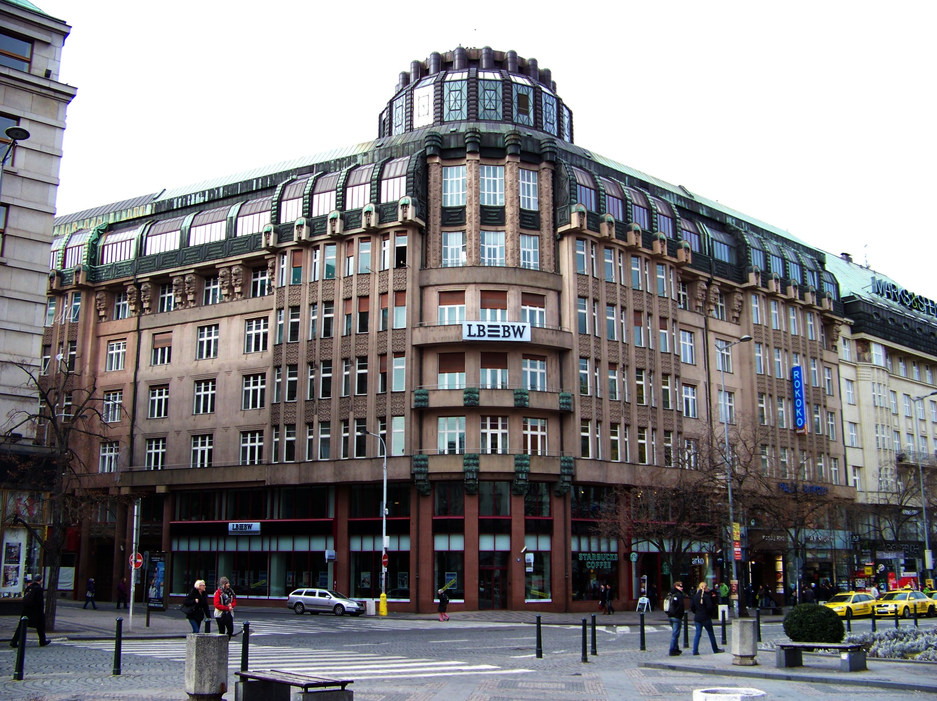 Prague-New Town, the Czech Republic. Wenceslas Square. - OpenStreetMap(Info)